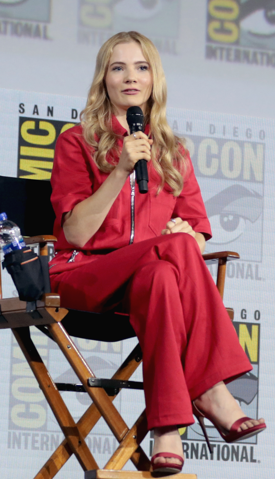 Freya Allan speaking at the 2019 San Diego Comic Con International, for "The Witcher", at the San Diego Convention Center in San Diego, California.